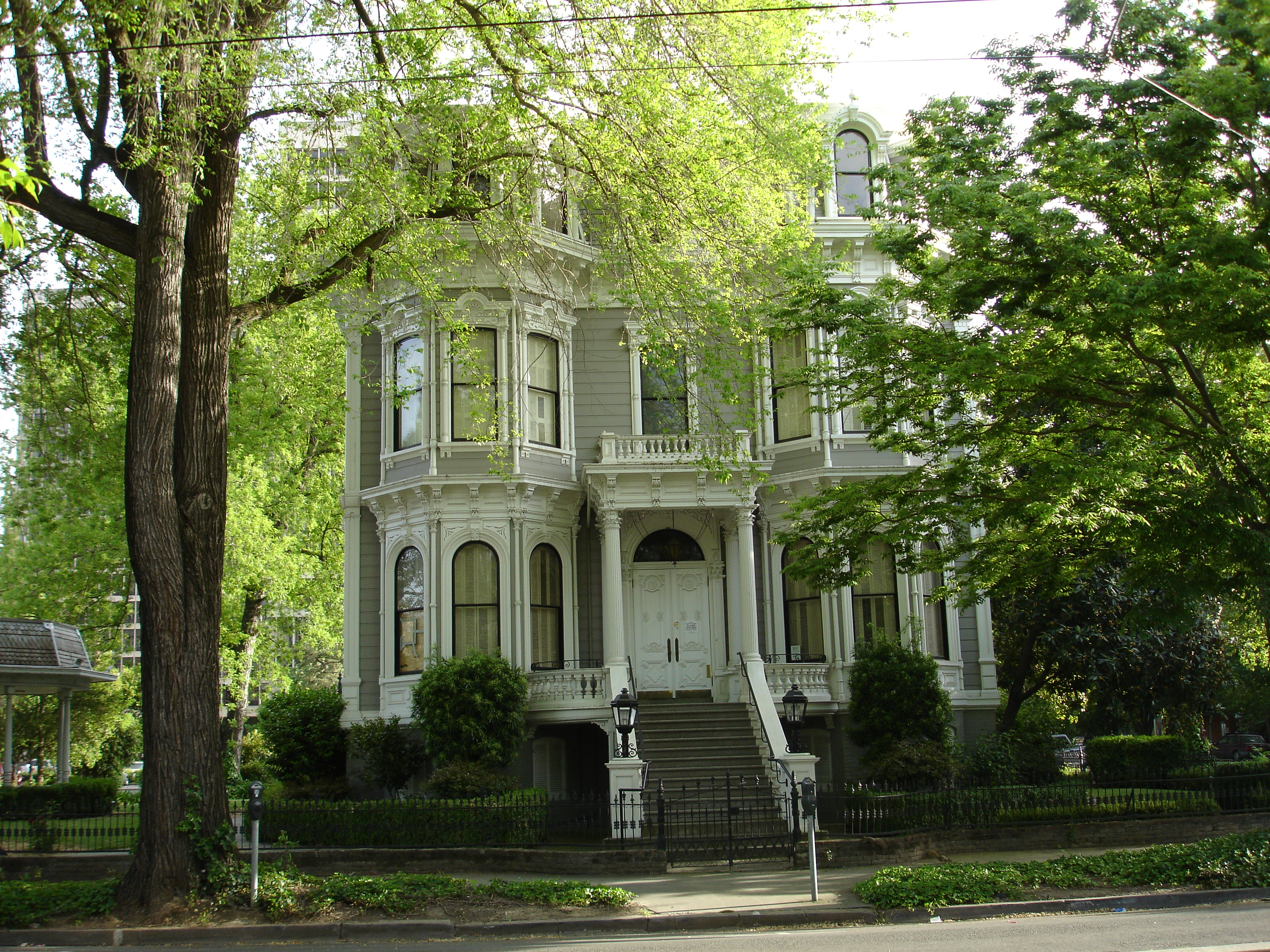 The Heilbron House, built in 1881 is located at 704 O Street in Sacramento, California. This is a view of the front of the house from across the street.